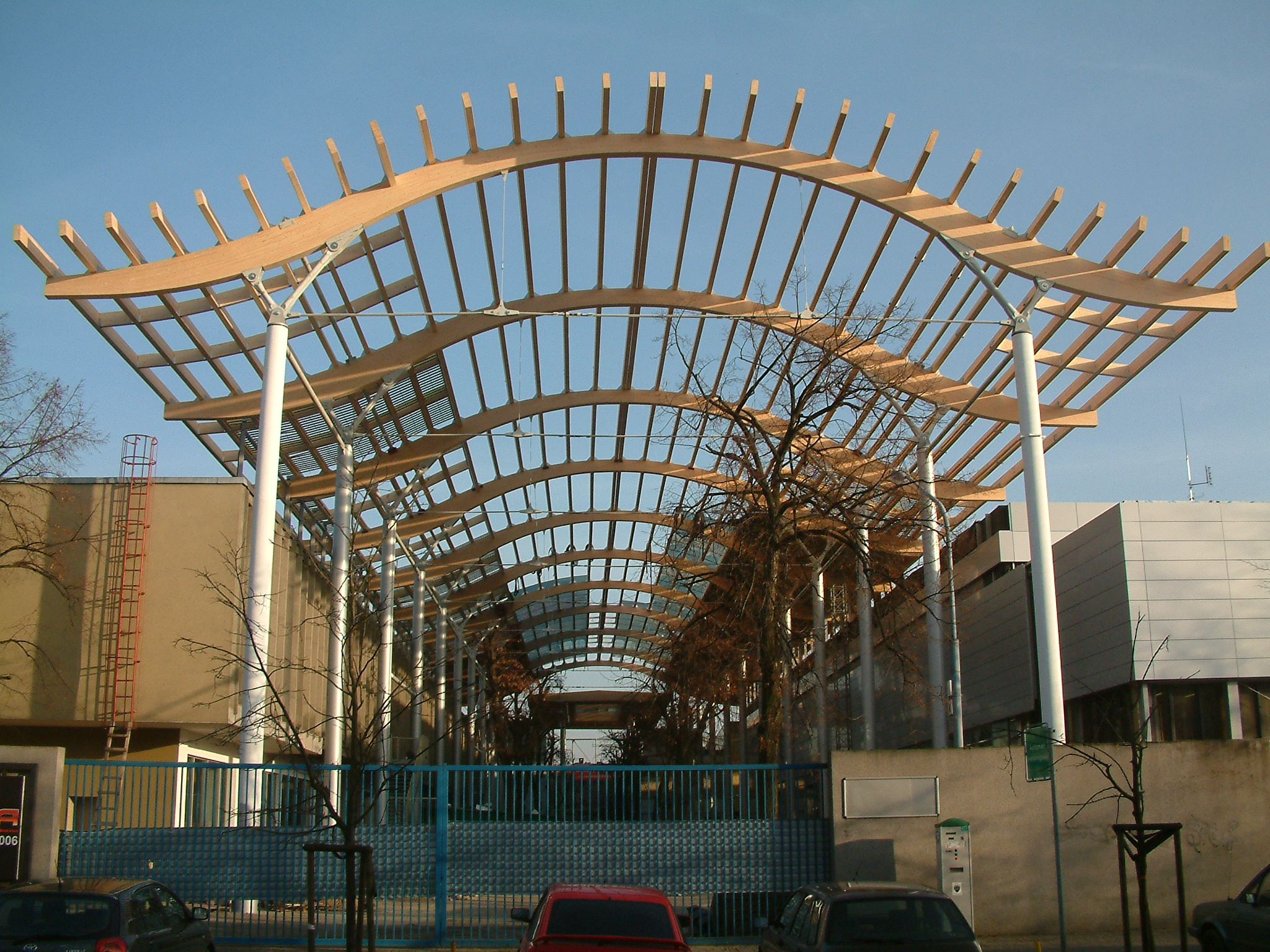 Poznań International Fair, Passage between pavilons 7 and 7a.